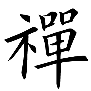 The character 禪 written in the style of Ouyang Xun's regular script